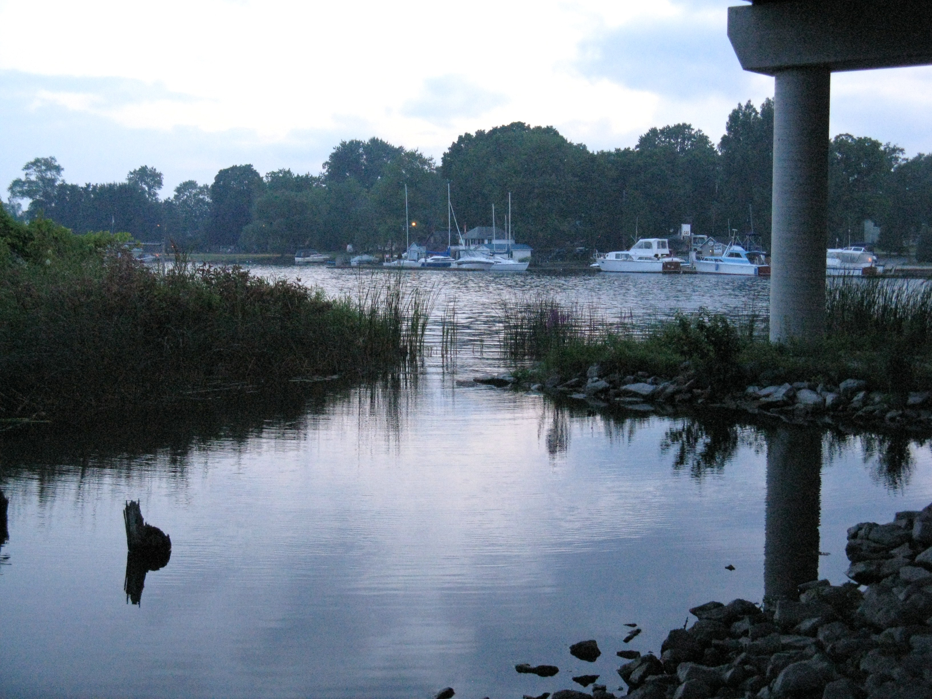 Mnjikaning Fish Weirs National Historic Site, Ramara, Ontario Other information If used outside Wikipedia, attribute to Yoho2001.